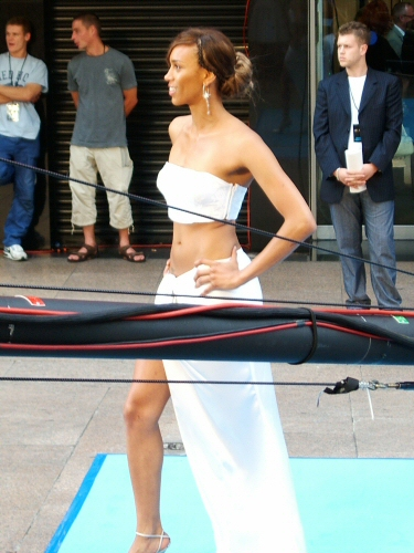 The Island Premiere